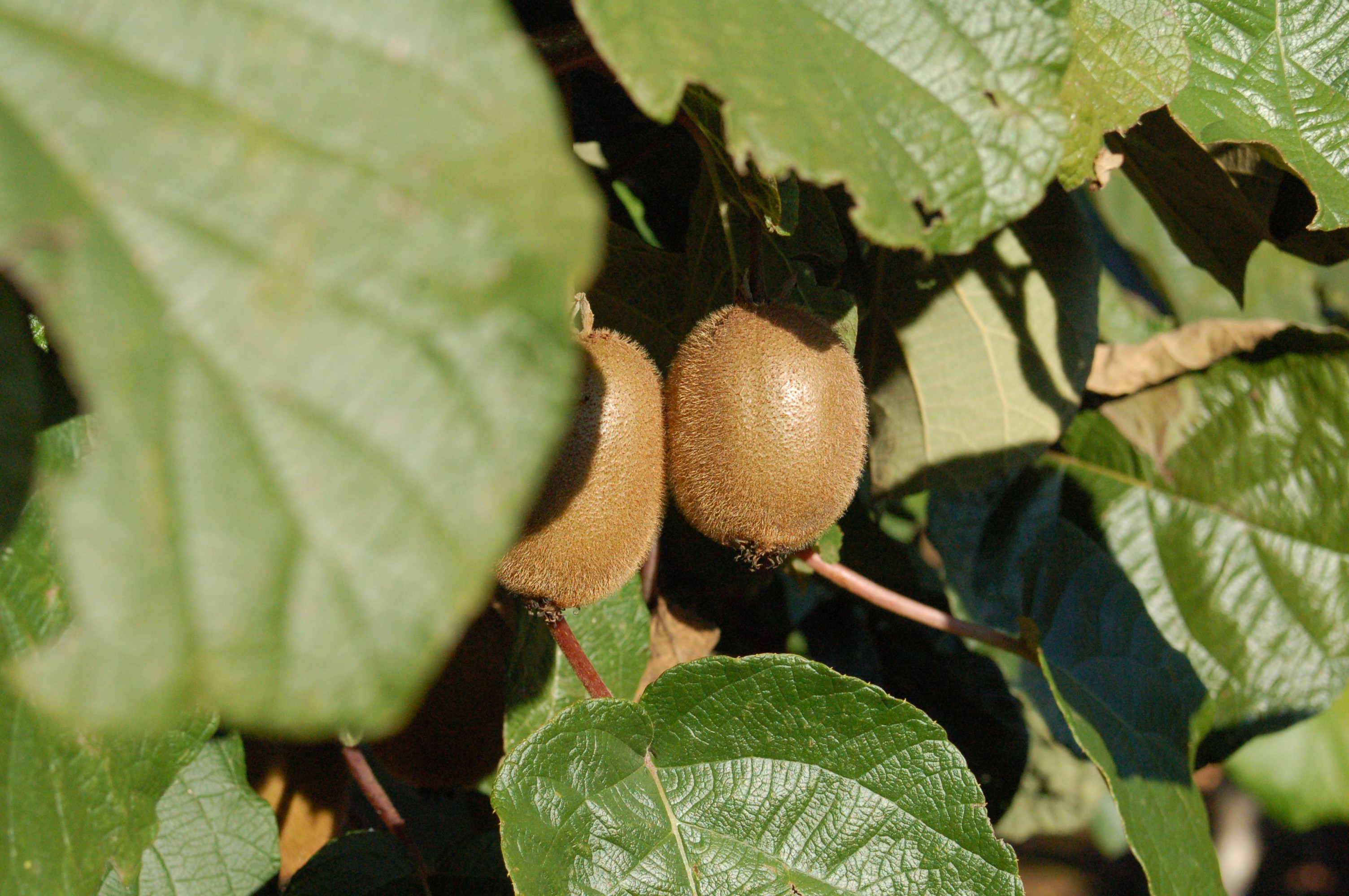 Kiwi time Kiwis are ripe.